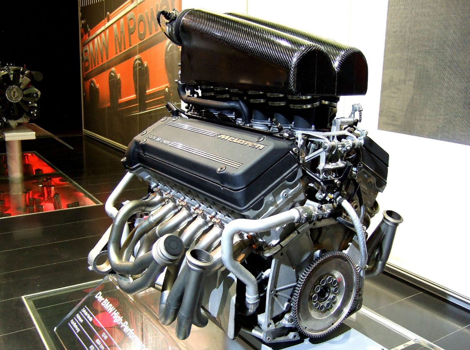 McLaren F1 1996 Engine V12 S7/02